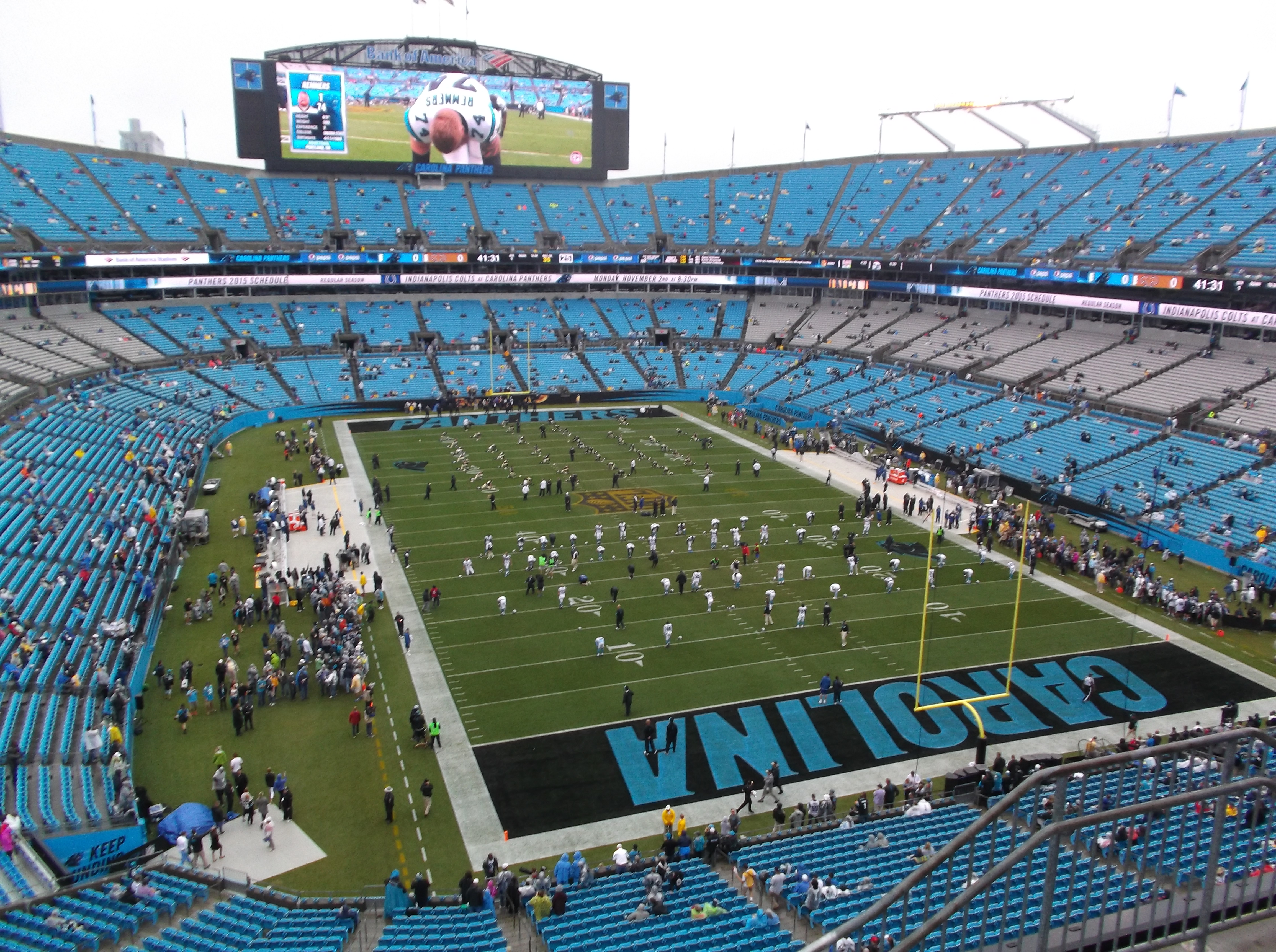 Bank of America Stadium in Charlotte, North Carolina after renovations in 2014